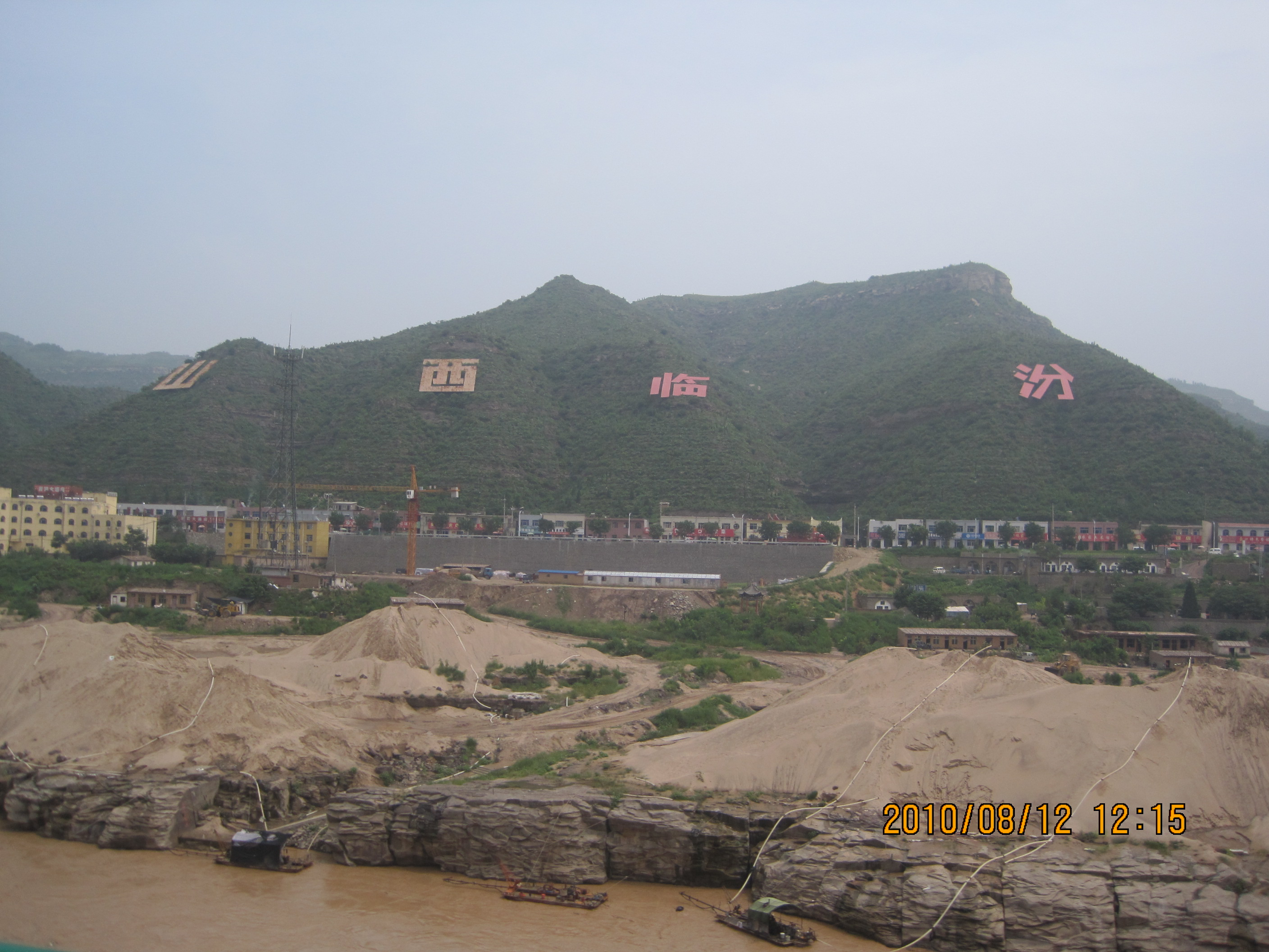 A huge sign with for ideographs on it, translate "Shanxi (province) Linfen (city). This banner hangs on a mountain cliff, styled like the world-famous Hollywood Sign.